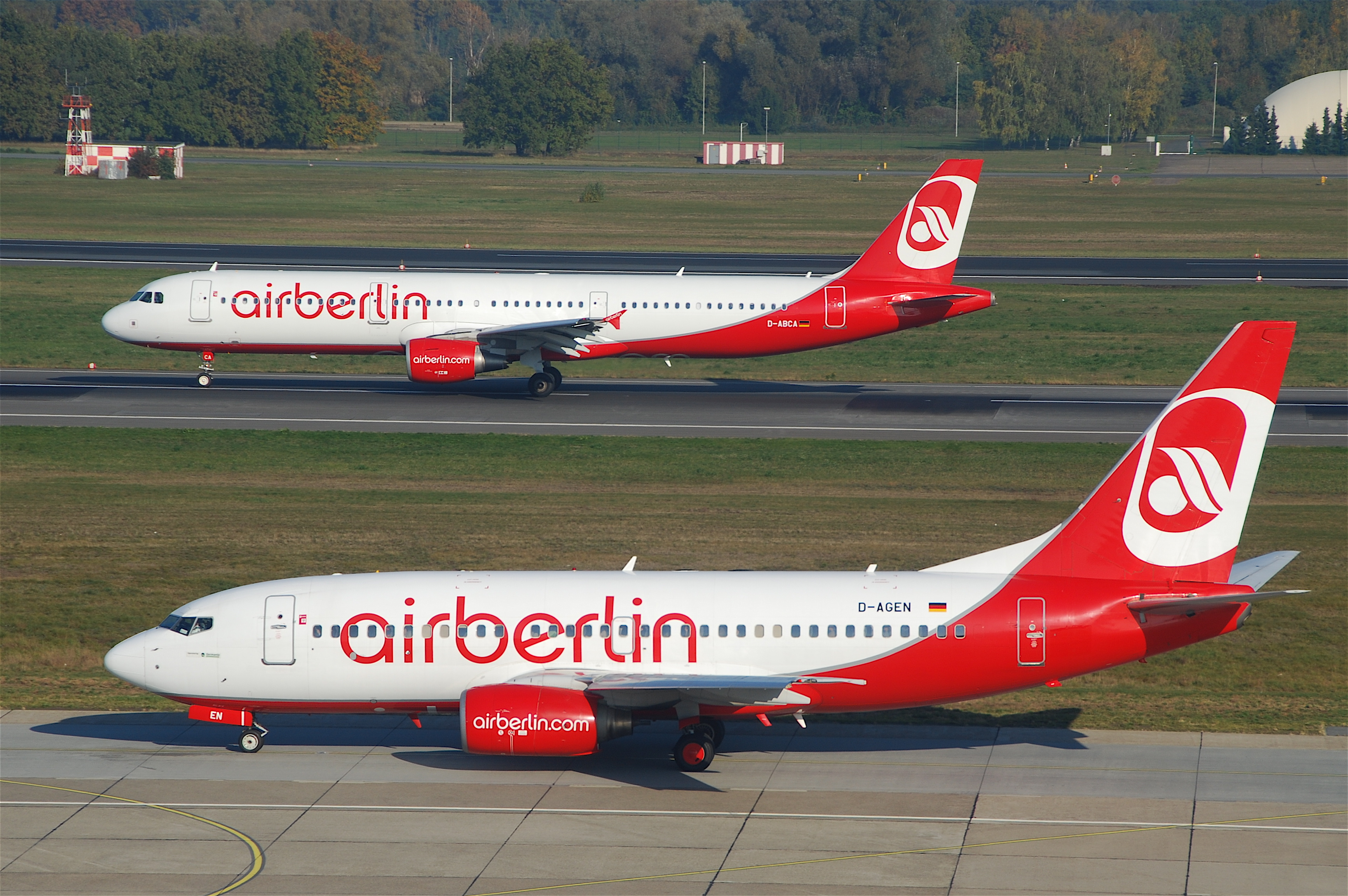 This Boeing 737-75B took its first flight on February 14, 1998...(c/n 28100/ 16) 23/03/1998 Germania D-AGEN 01/12/2002 Hapag-Lloyd Express D-AGEN 15/01/2007 TUIfly D-AGEN Air Berlin-colours 03/2008 06/03/2008 Germania D-AGEN Air Berlin-colours